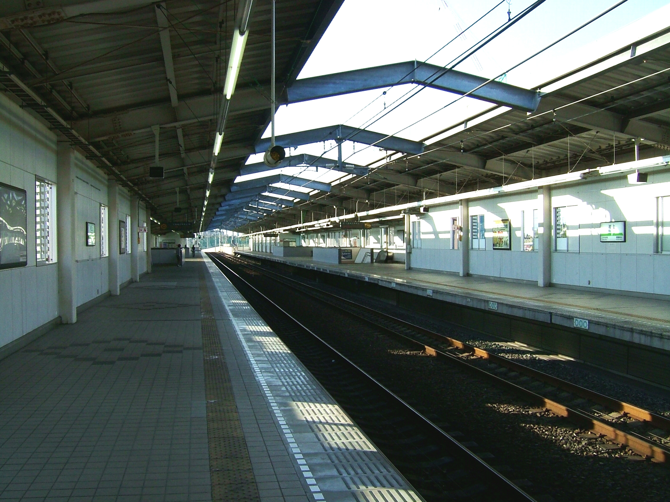 Murakami Station platform (Toyo Rapid Railway Line)